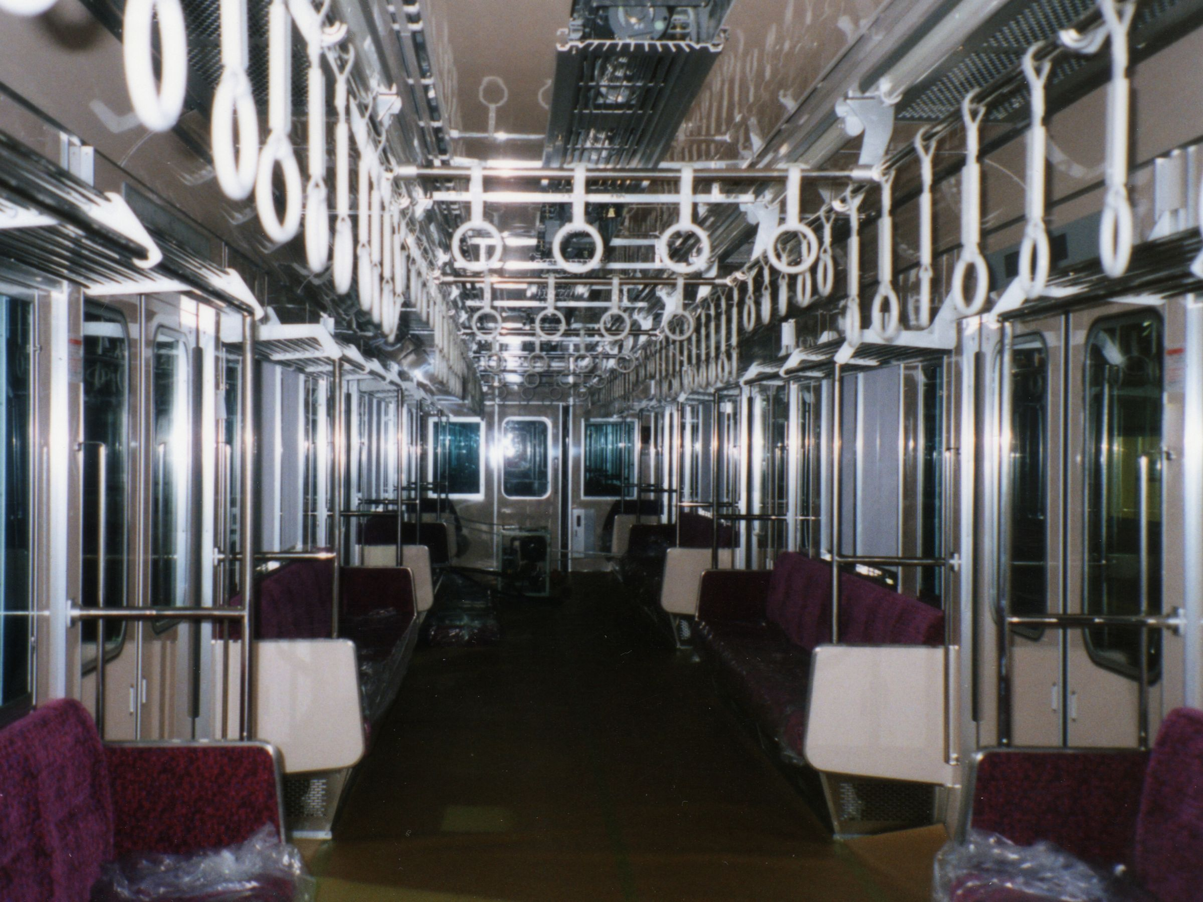 The interior of an Odakyu 2000 series EMU while being delivered